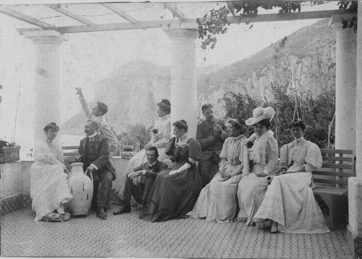 At Villa Torricella, 1906. Front Back